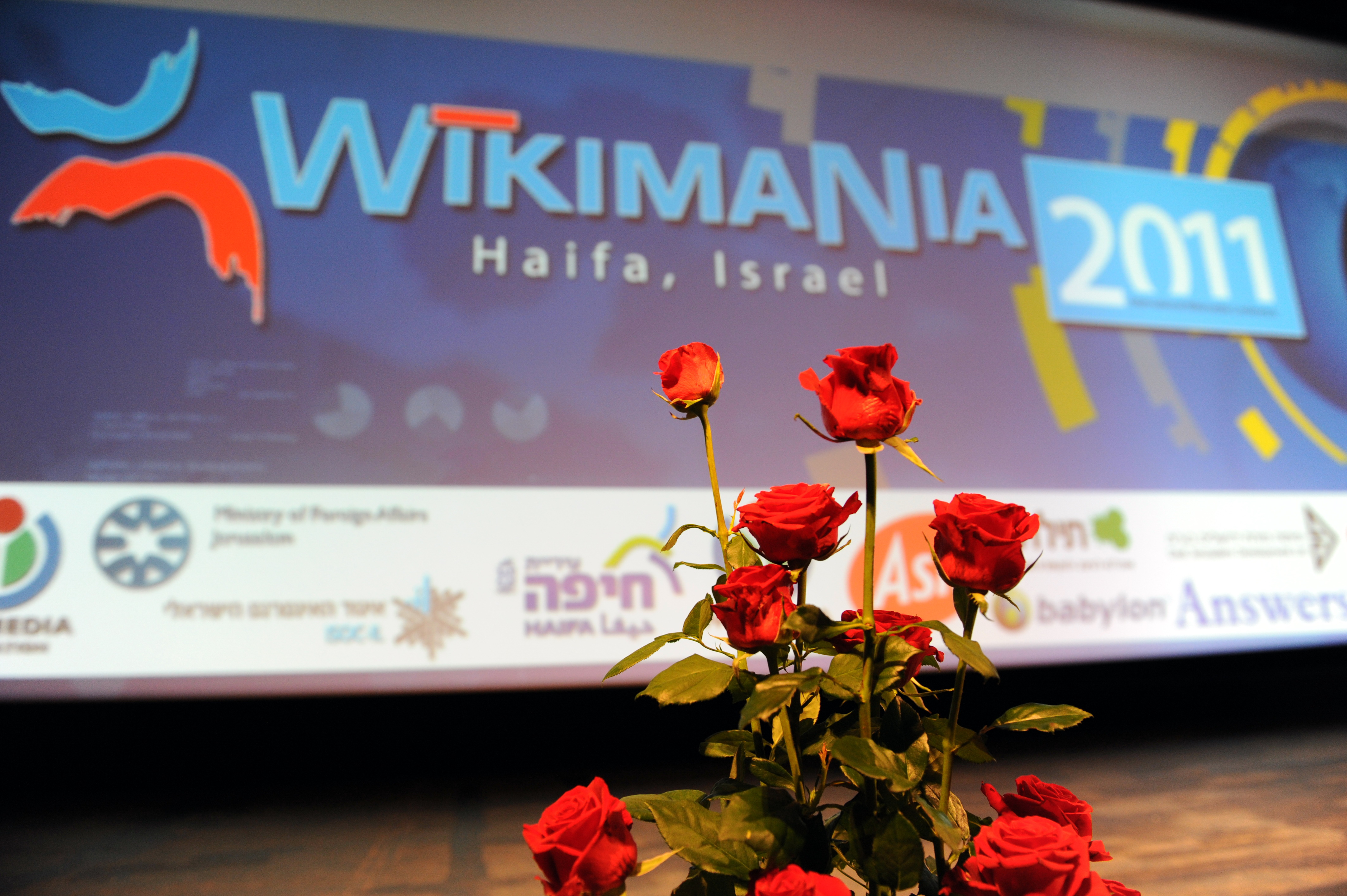 This picture has been taken by a Wikimania 2011 organization team photographer.